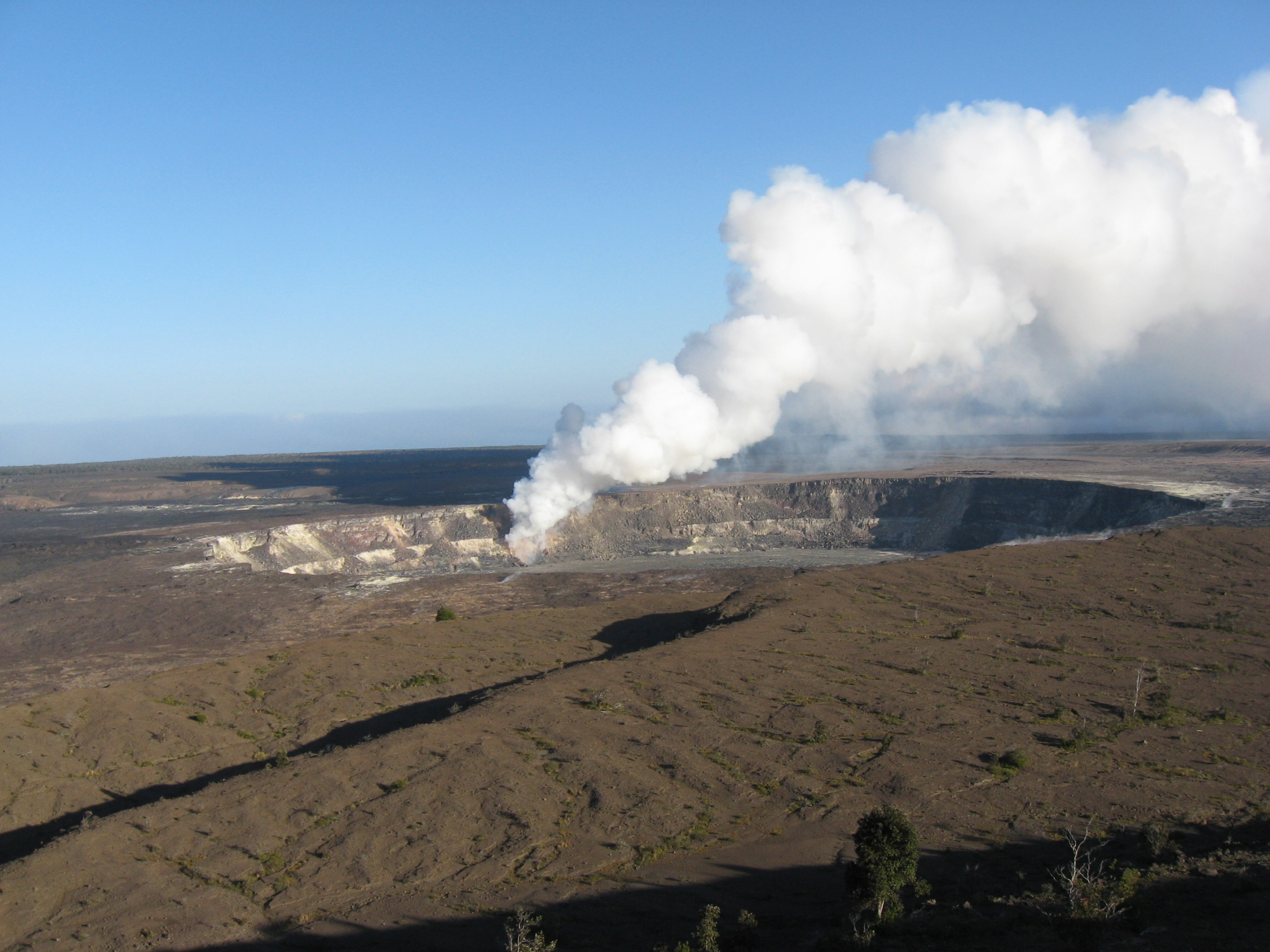 Kīlauea in Hawaii Volcanoes National Park